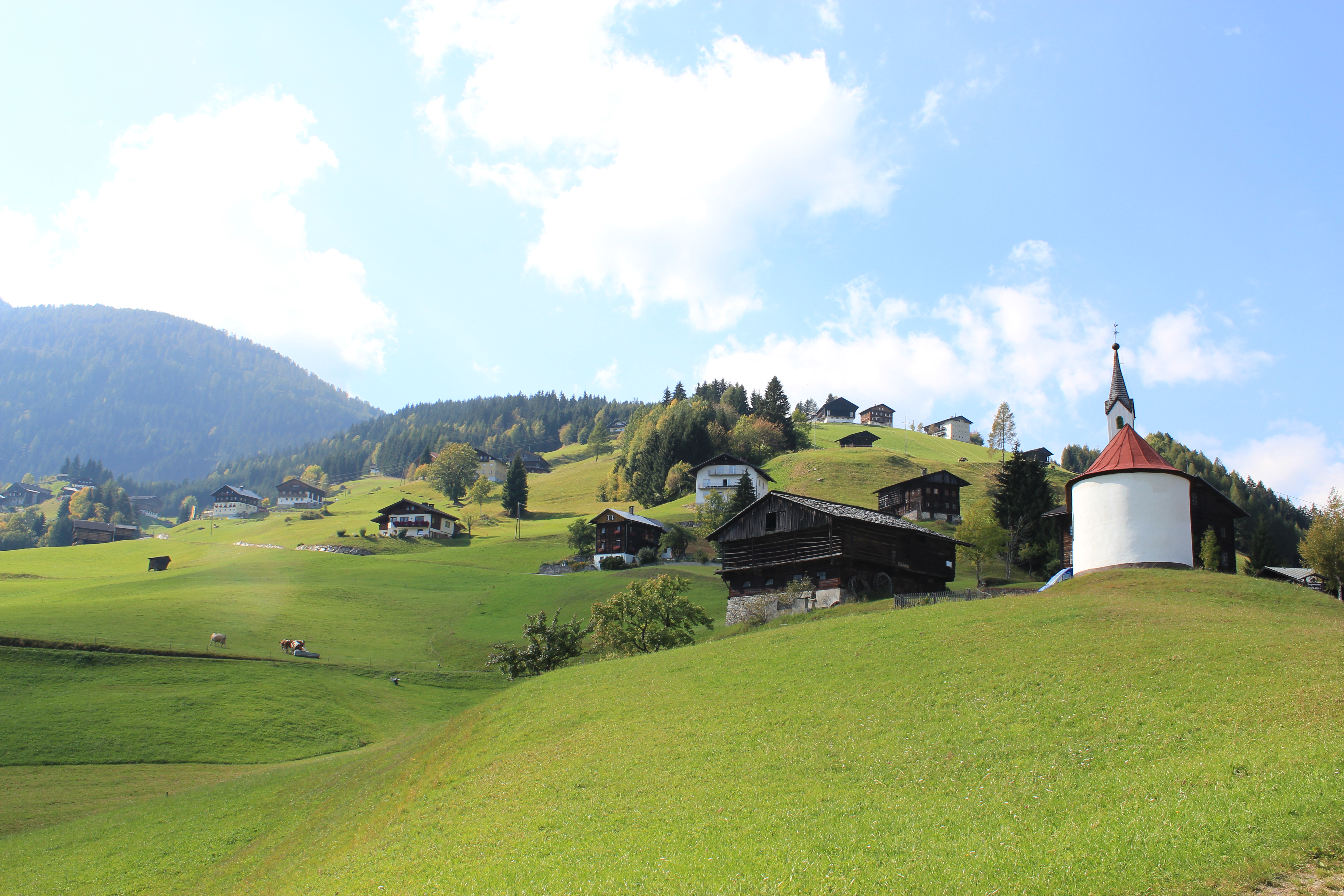 Obergail in the community Lesachtal